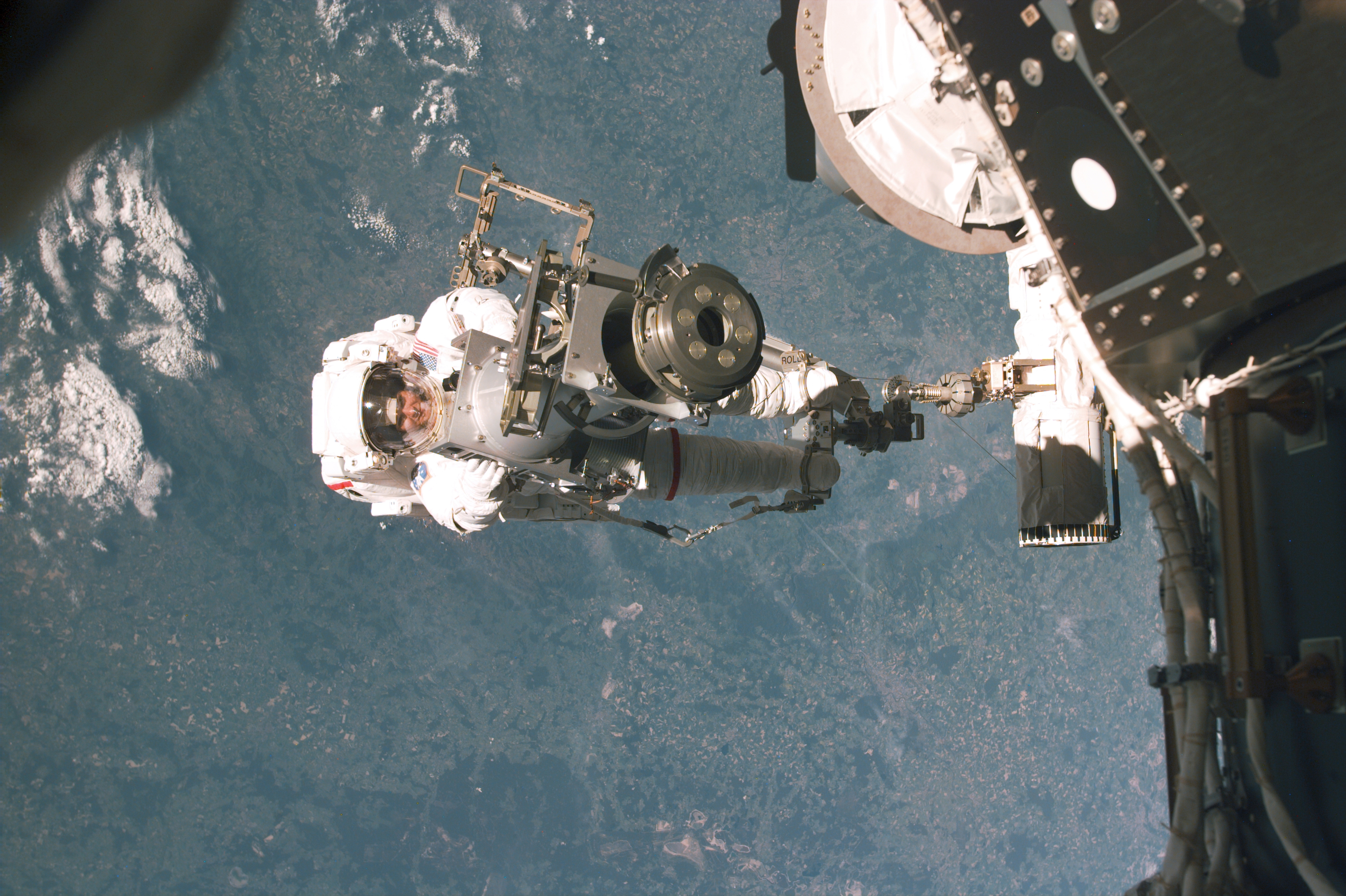 Astronaut Tamara Jernigan, backdropped against terrain, totes part of a Russian-built crane, called Strela (a Russian word meaning "arrow"). Jernigan's feet are anchored on a mobile foot restraint connected to Discovery's remote manipulator sytsem (RMS). Astronauts Jernigan and Daniel T. Barry went on to spend over seven hours on the space walk. The photo was recorded with an electronic still camera (ESC) at 06:36:22 GMT, May 30, 1999.